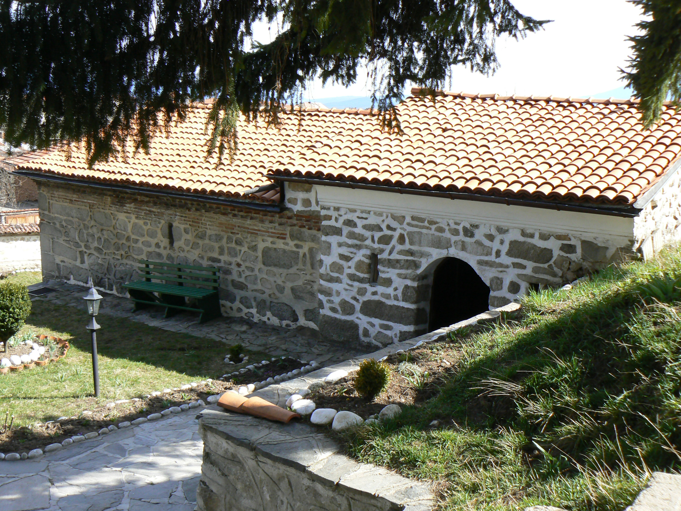 Medieval church in village Dobarsko, Bulgaria